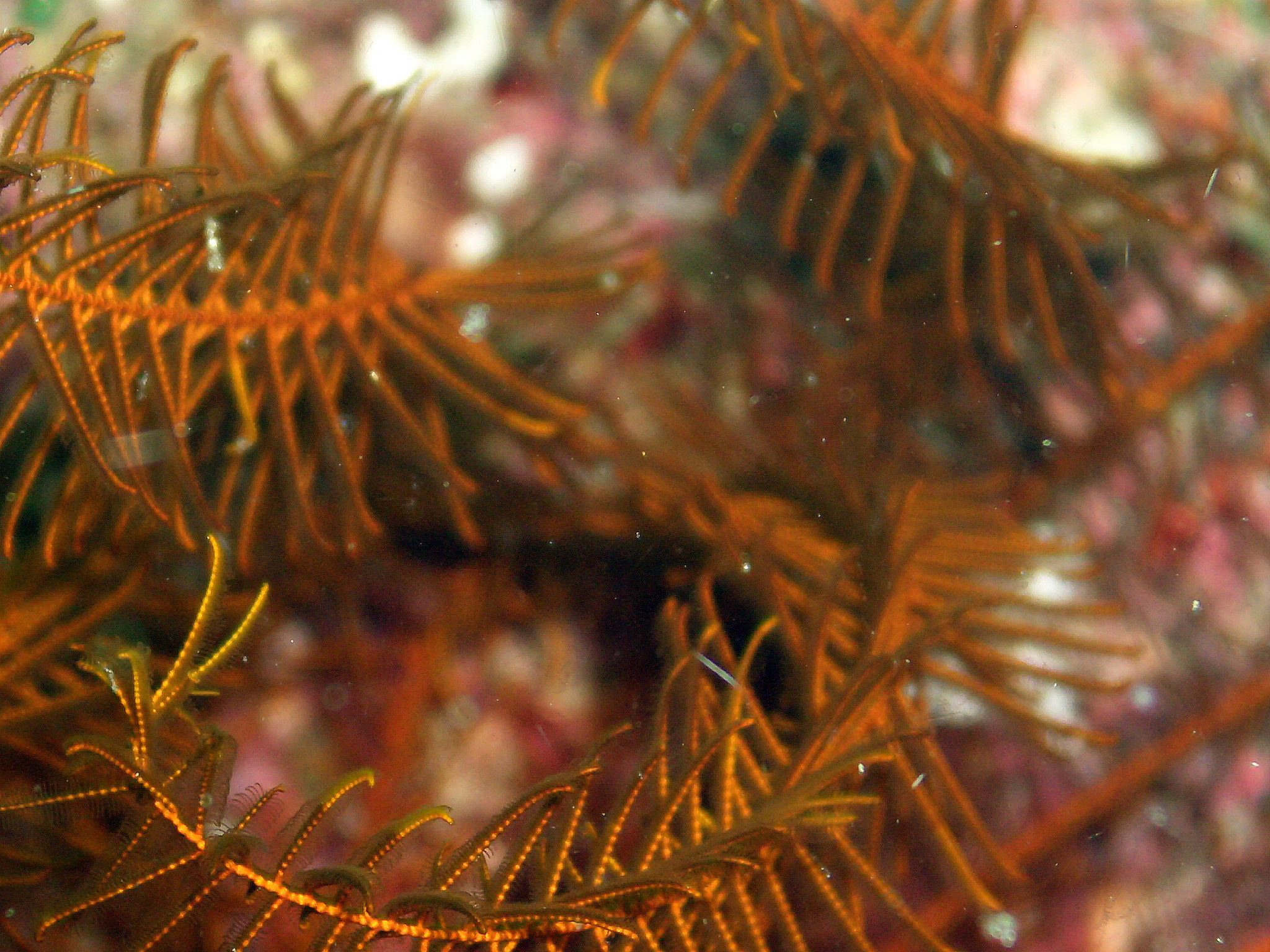 Feather Star (Phanogenia sp) at Lembeh Strait, North SulawesiBahasa Indonesia: Lili laut (Phanogenia sp.) di Selat Lembeh, Sulawesi Utara